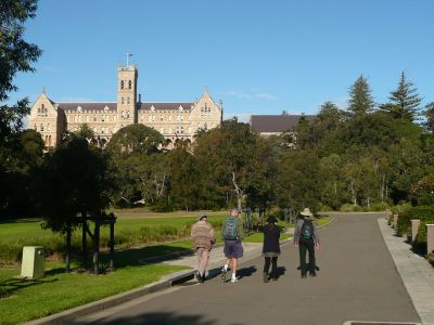 St Patrick's Seminary: St Patrick's Estate